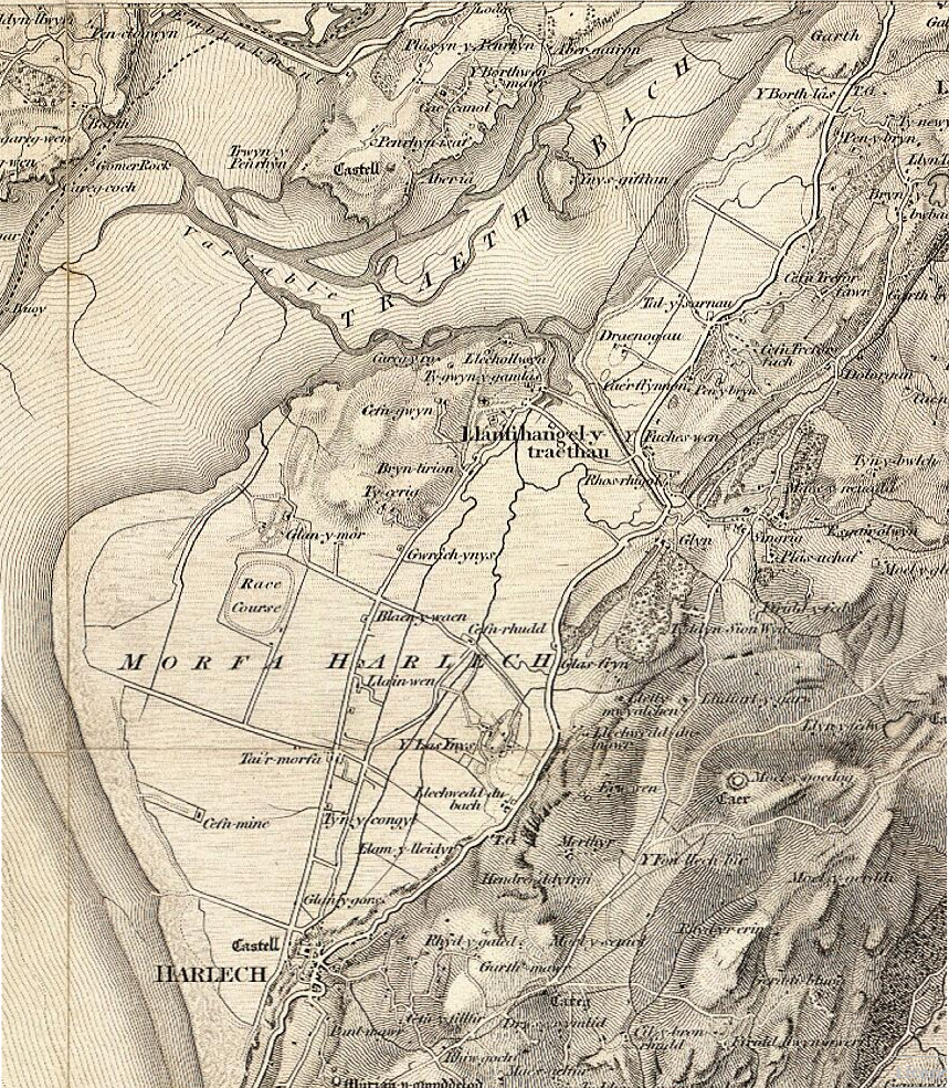 Detail from Ordnance Survey First Series, Sheet 75 SE - Harlech showing the vicinity of Llanfihangel-y-traethau.